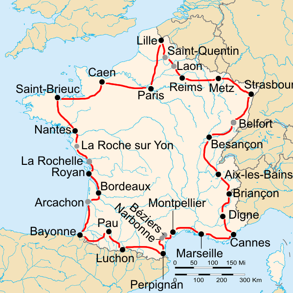 Route of the 1938 Tour de France, starting and finishing in Paris. The black dots are the cities that hosted a stage start and finish, the grey dots are the cities where a split stage was split.